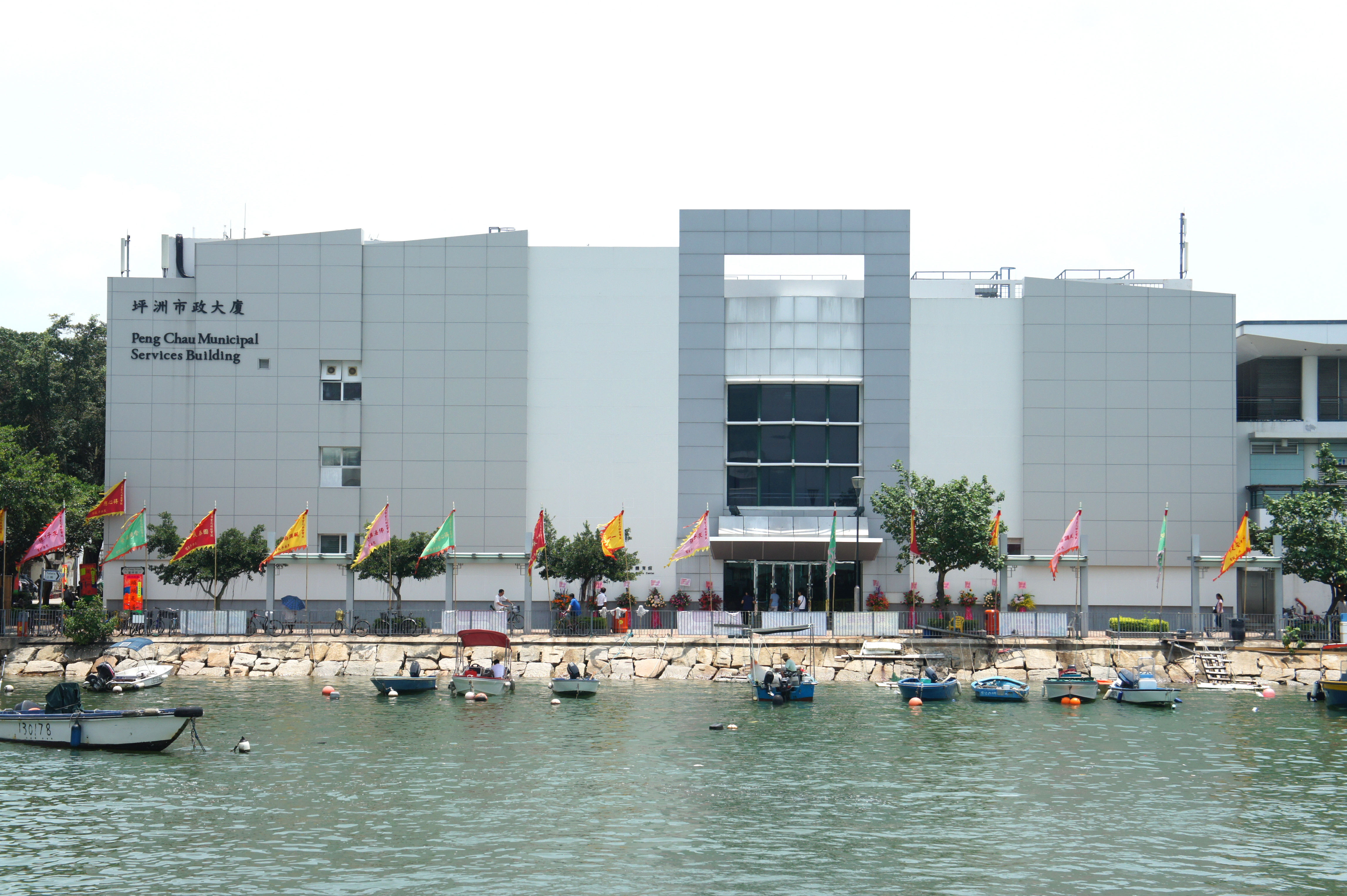 Peng Chau Municipal Services Building, Peng Chau, New Territories, Hong Kong.